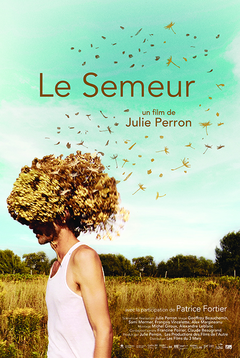 Poster of the movie The Sower (Q64864019)